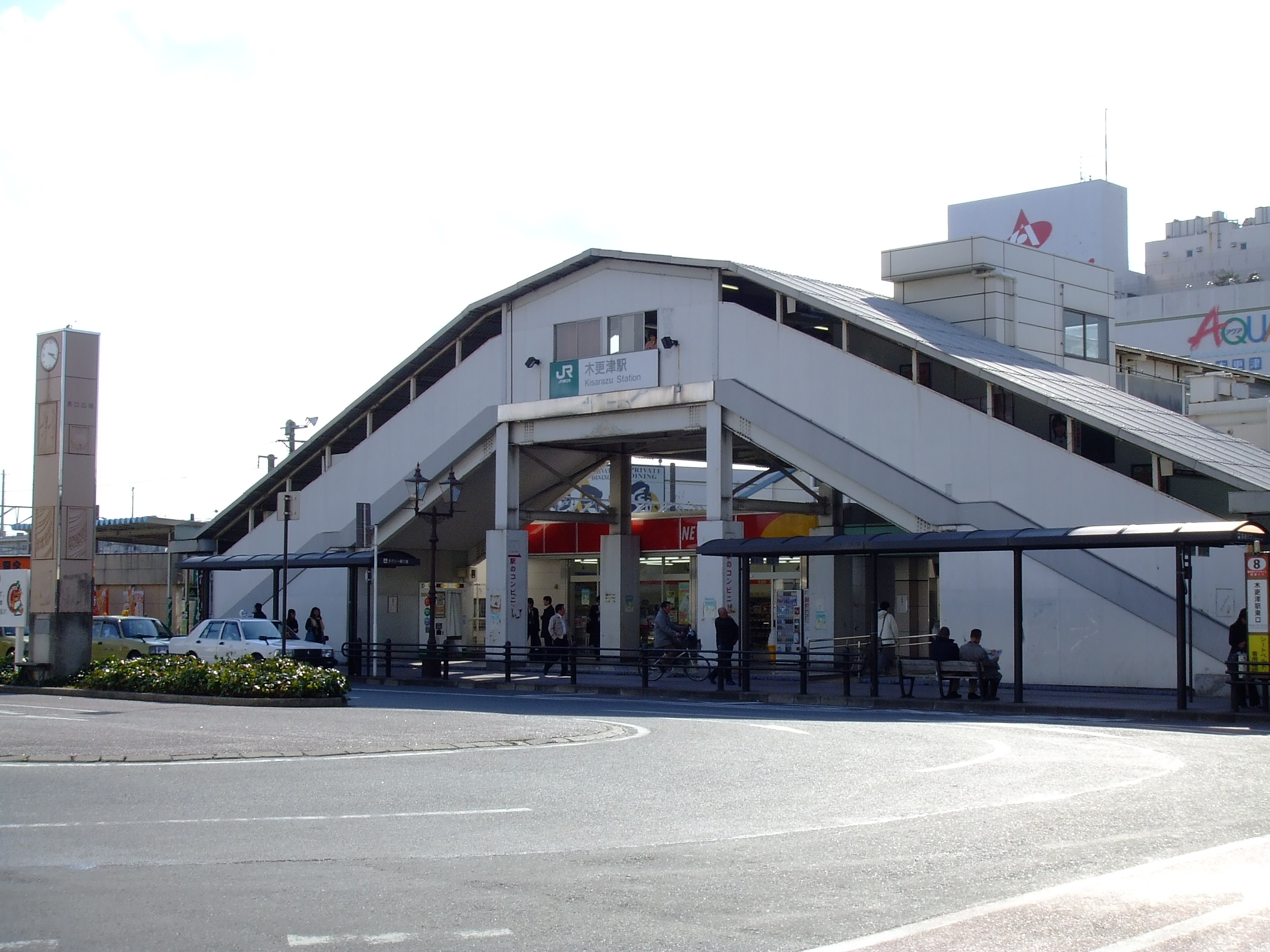 Kisarazu station eastgate